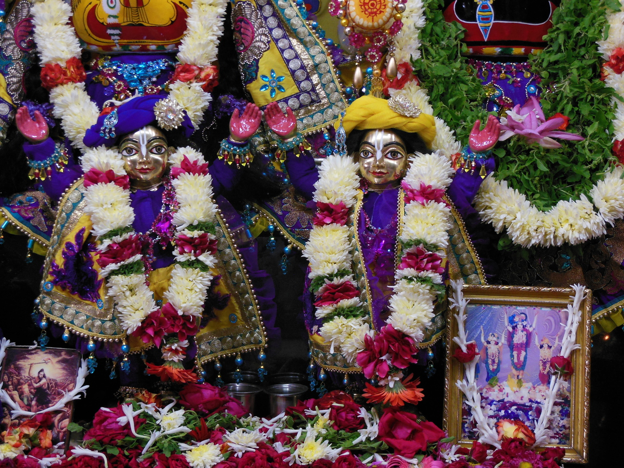 Sri Sri Nitai Caitanya of ISKCON Sri Jagannath Mandir Bangalore